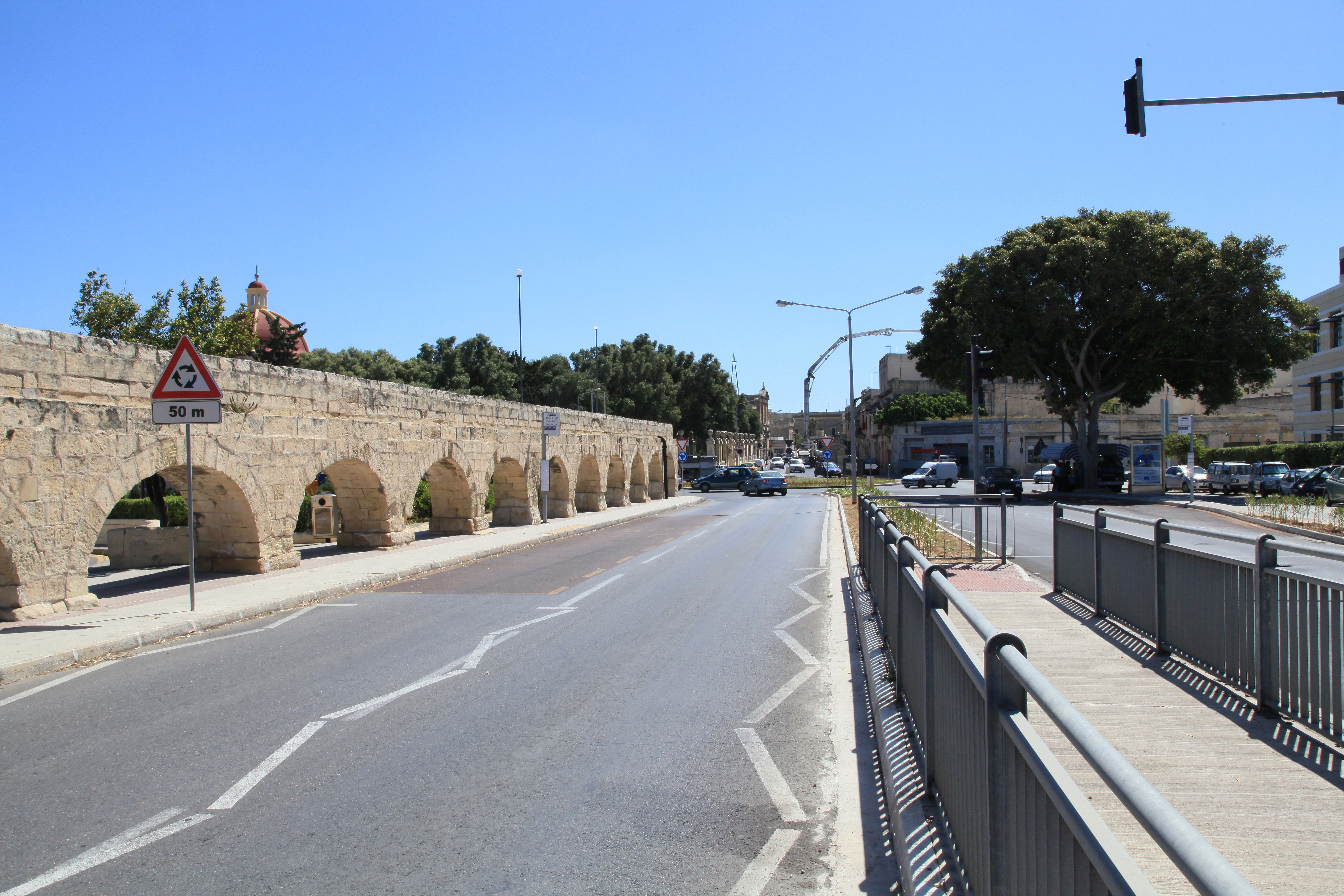 Wignacourt Aqueduct at Triq l-Imdina in Birkirkara, Malta